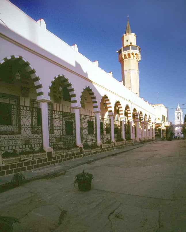 Mosque and arcade in Tripol's medina, Libya. I edited the original by changing the levels and photoshop and cropping.